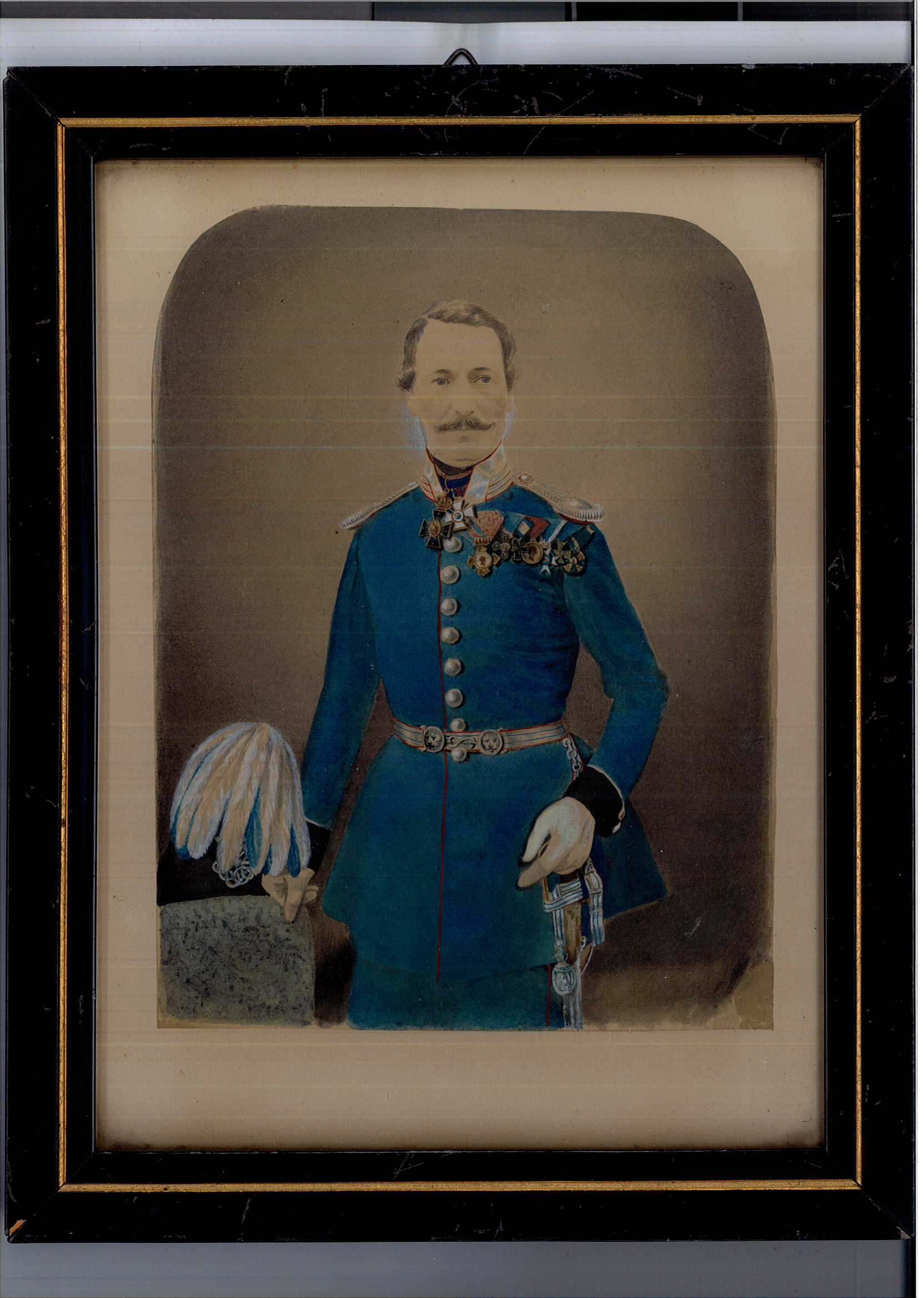 Carl Joseph Bronzetti